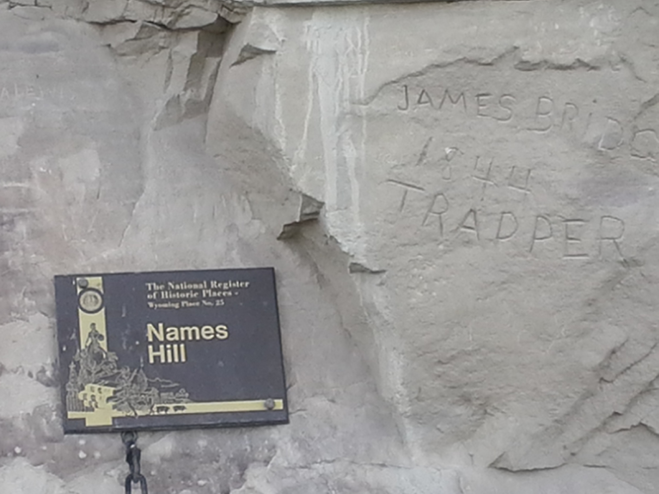 Names Hill, On the Green River, 5 mi (8.0 km) south of LaBarge and west of U.S. Route 189 La Barge